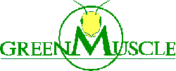 Logo of the anti-locust biopesticide Green Muscle